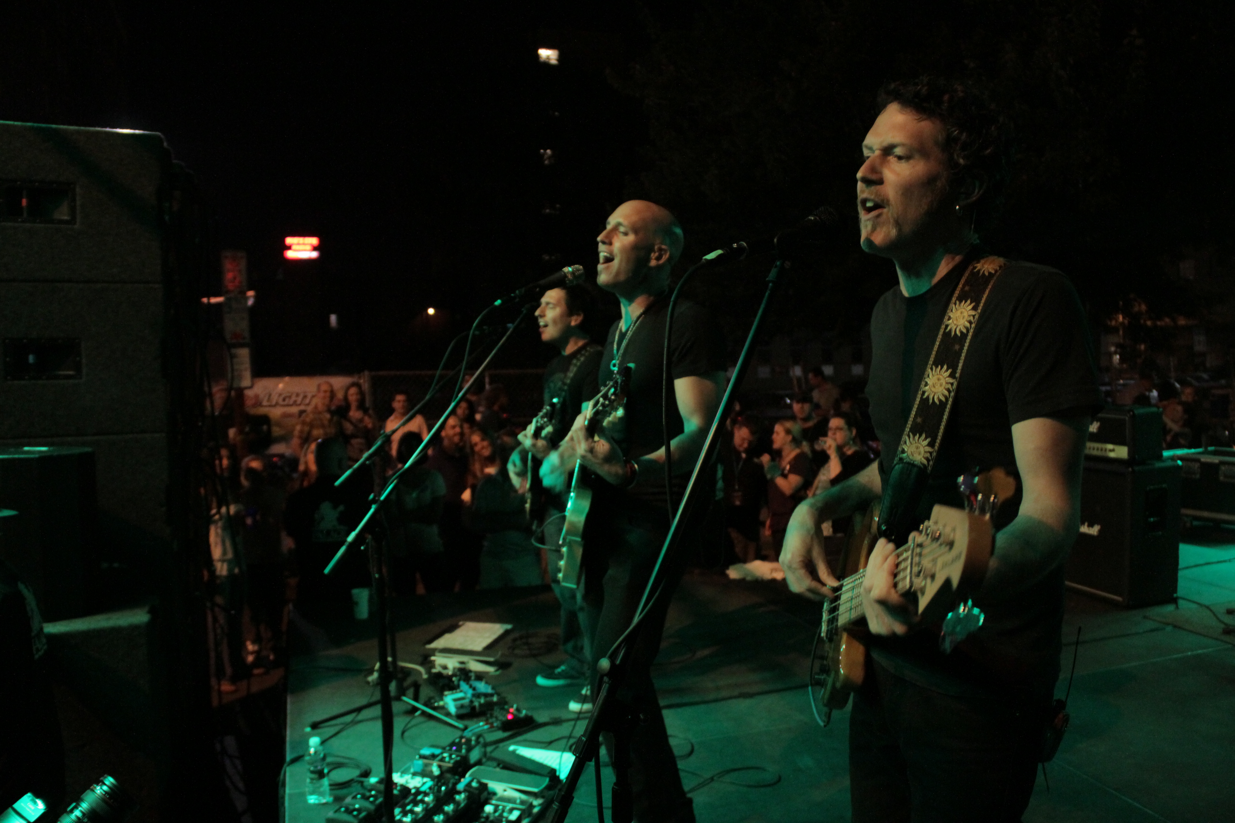 Vertical Horizon performs at the Hartford Block Party